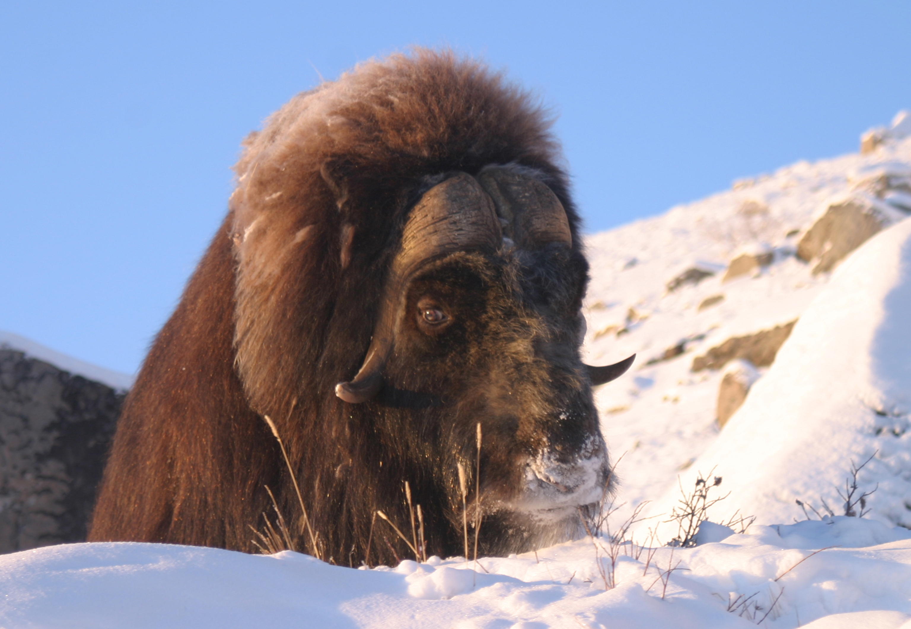 Close-up muskox